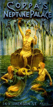 Repository: California Historical Society Digital object ID: CHS2013.1412 Call number: MENU COL Collection: California menu collection Date: undated Preferred citation: Menu, Coppa’s Neptune Palace, San Francisco, California menu collection, courtesy, California Historical Society, CHS2013.1412.jpg. Online finding aid